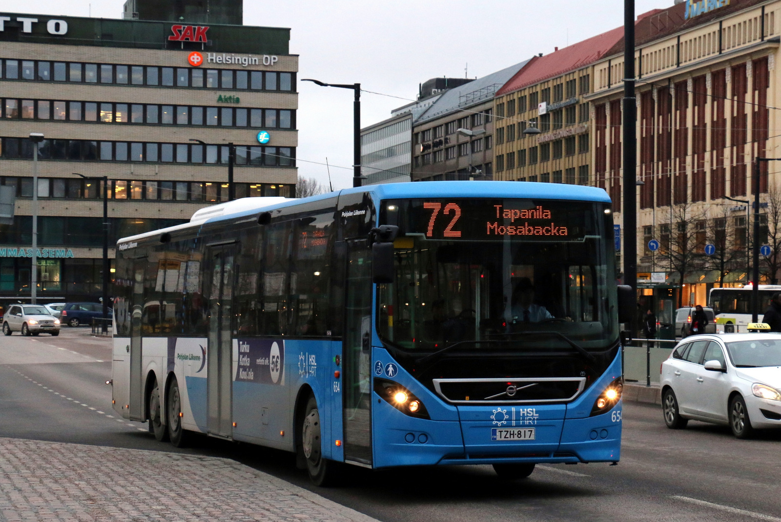 A brand-new Volvo 8900LE owned by Pohjolan Liikenne on line 72.